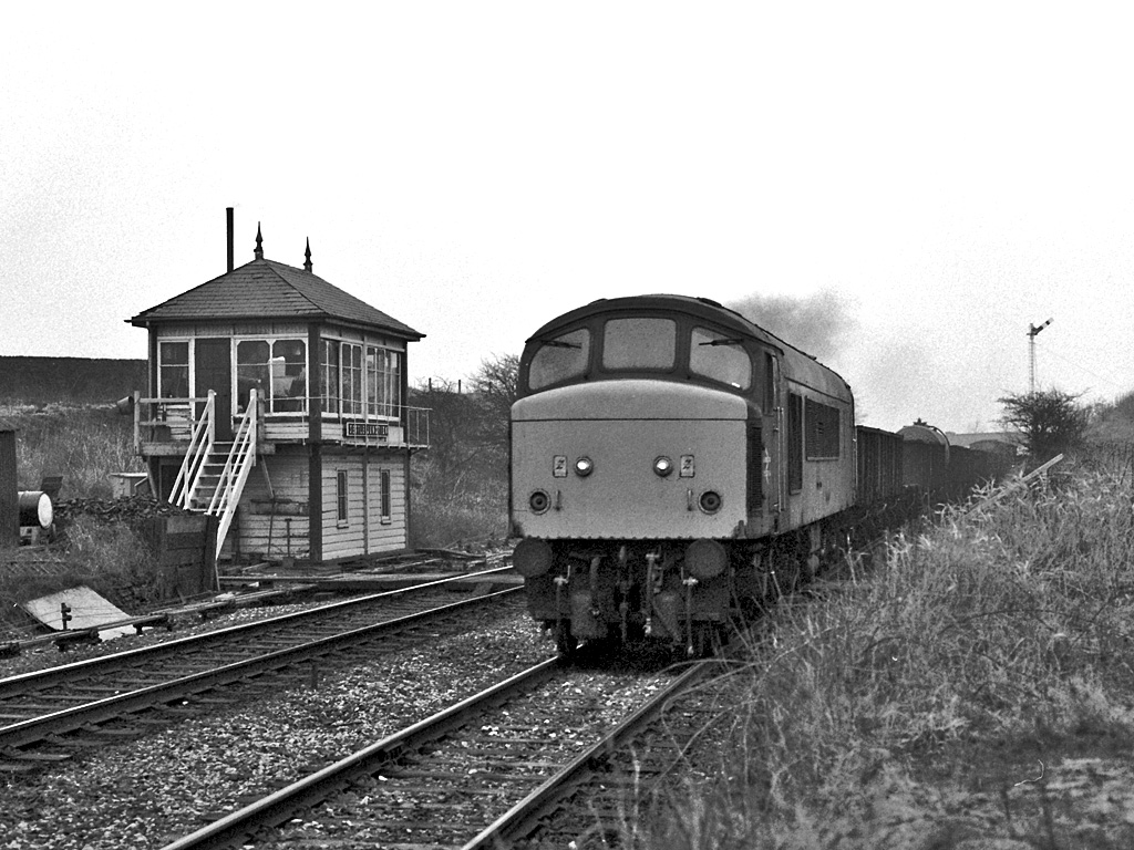 British Railways Type 4 1Co-Co1 class 45/0 diesel-electric locomotive number 45016 of Tinsley TMD passes by Settle Junction signal box on the Up Main line with a 43 wagon mixed freight train. Thursday 24th February 1983